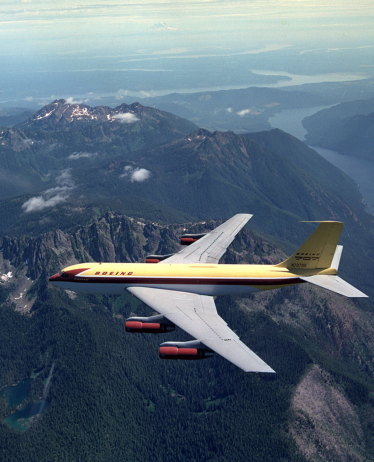 Dash 80 air to air photo, showing the aircraft passing over the Olympic Peninsula with Lake Cushman, Puget Sound and Mt. Rainier in the background. By Joe Parke